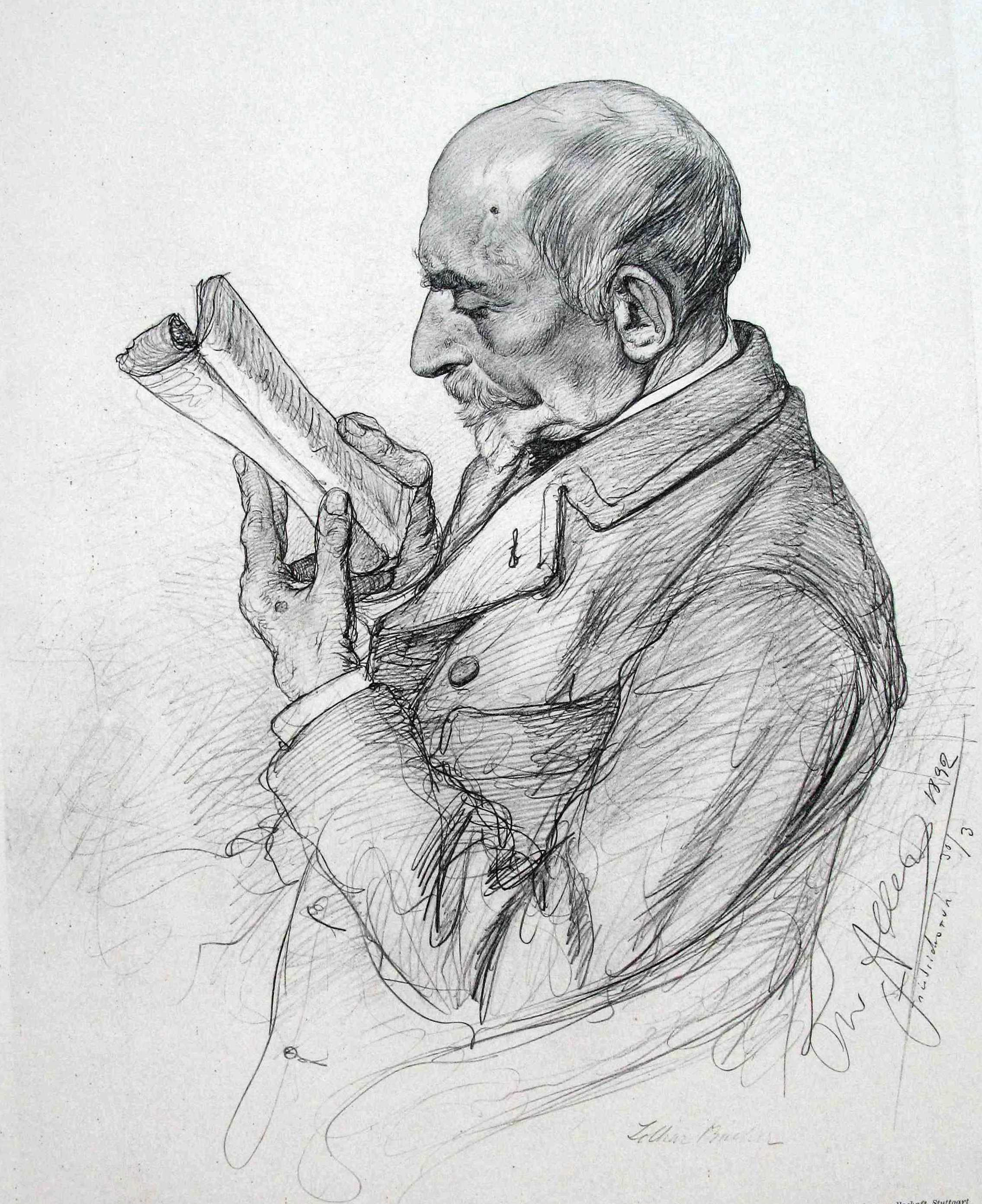 Portrait of Lothar Bucher, drawing by Christian Wilhelm Allers